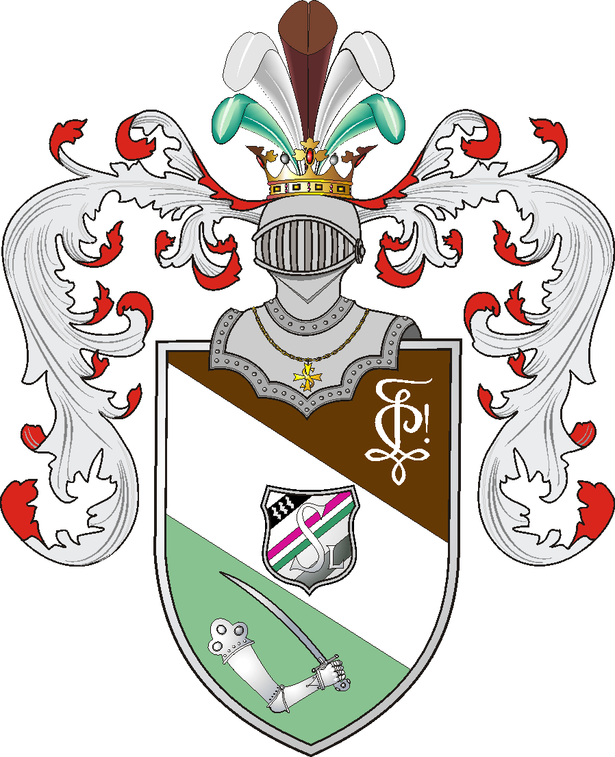 Corps Sarmatia CoA